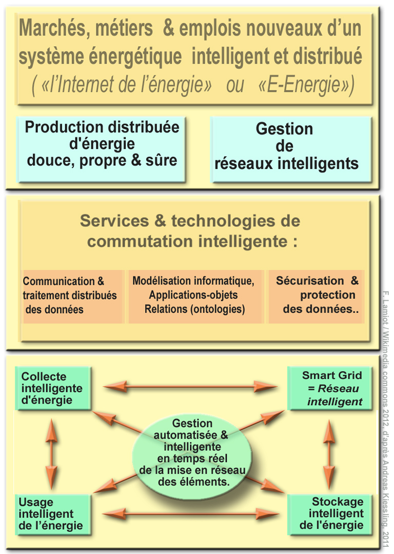 Simplified description of occupations, activities and new jobs associated with the "Third industrial revolution" proposed and promoted by Jeremy Rifkin